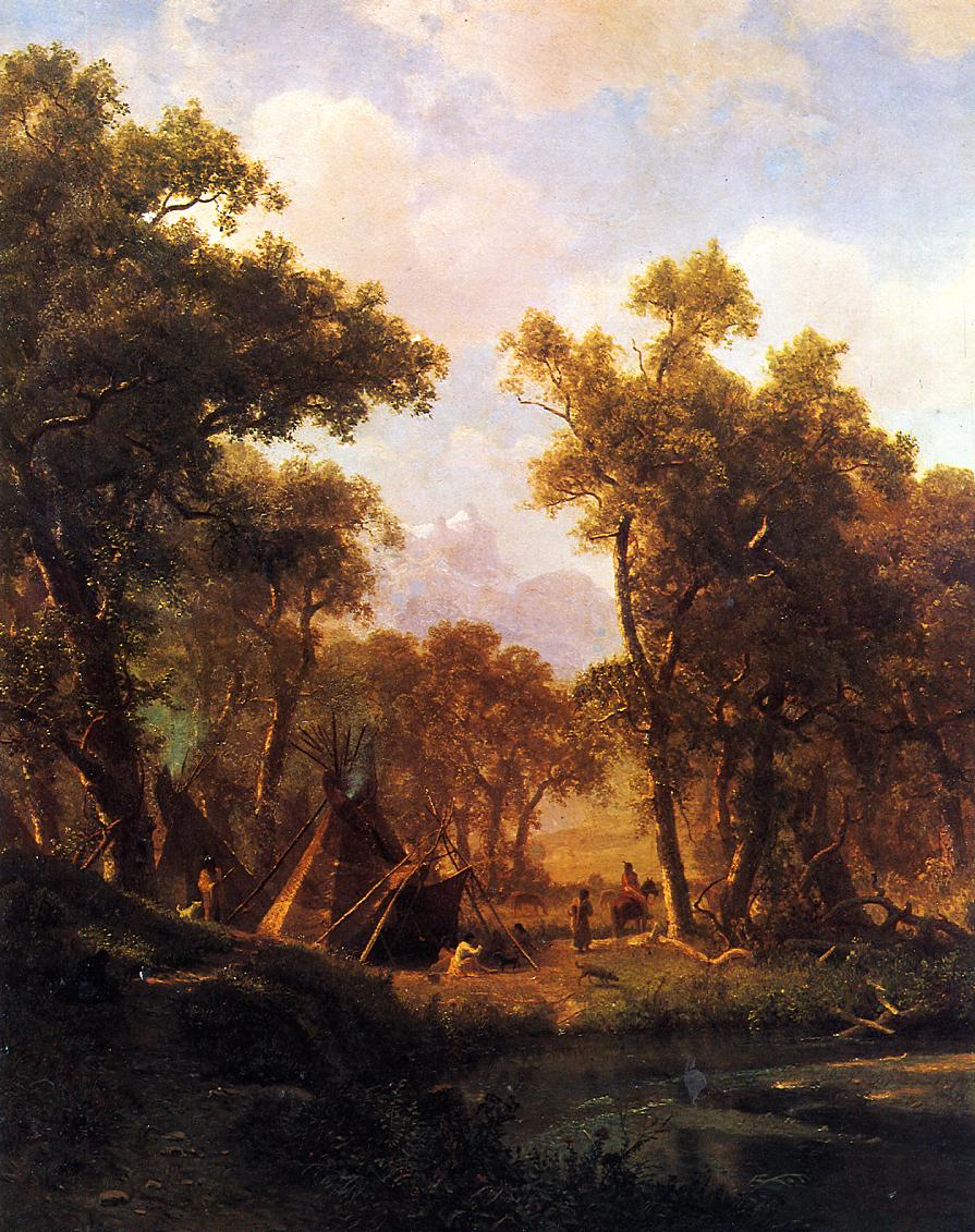 In a riparian forest, western United States.